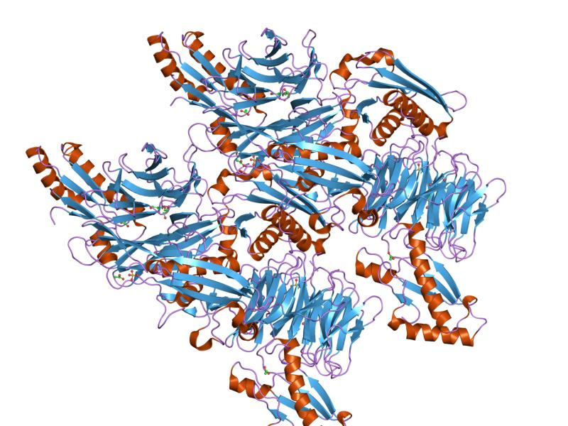 Cartoon representation of the molecular structure of protein registered with 2hqs code.